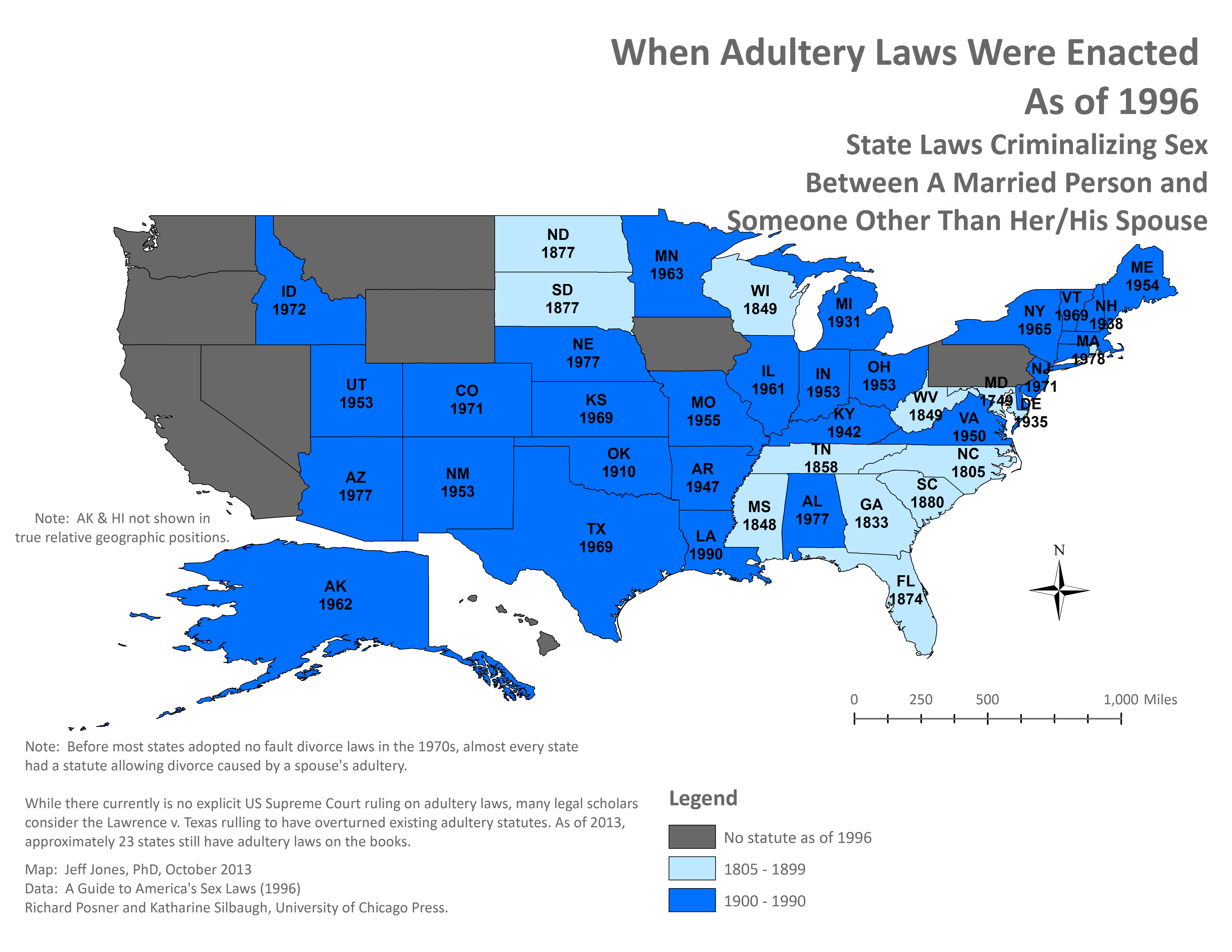 This map shows U.S. adultery laws in 1996 and when these laws were enacted. This map is part of a map series created for